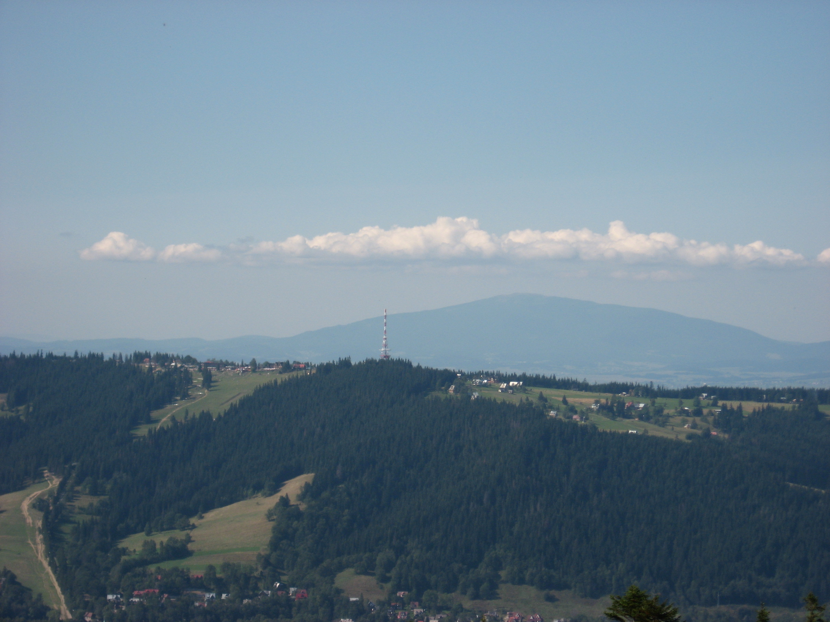 Babia Góra (in the background) and Gubałówka (in the foreground) seen from Nosal (Tatra mountains)